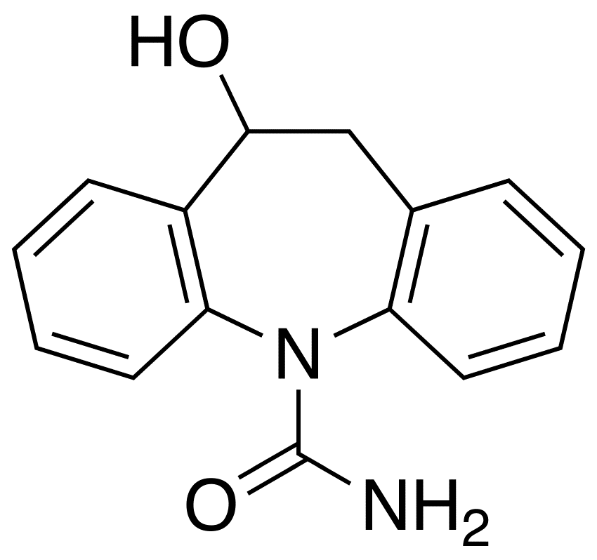 Skeletal structure of licarbazepine